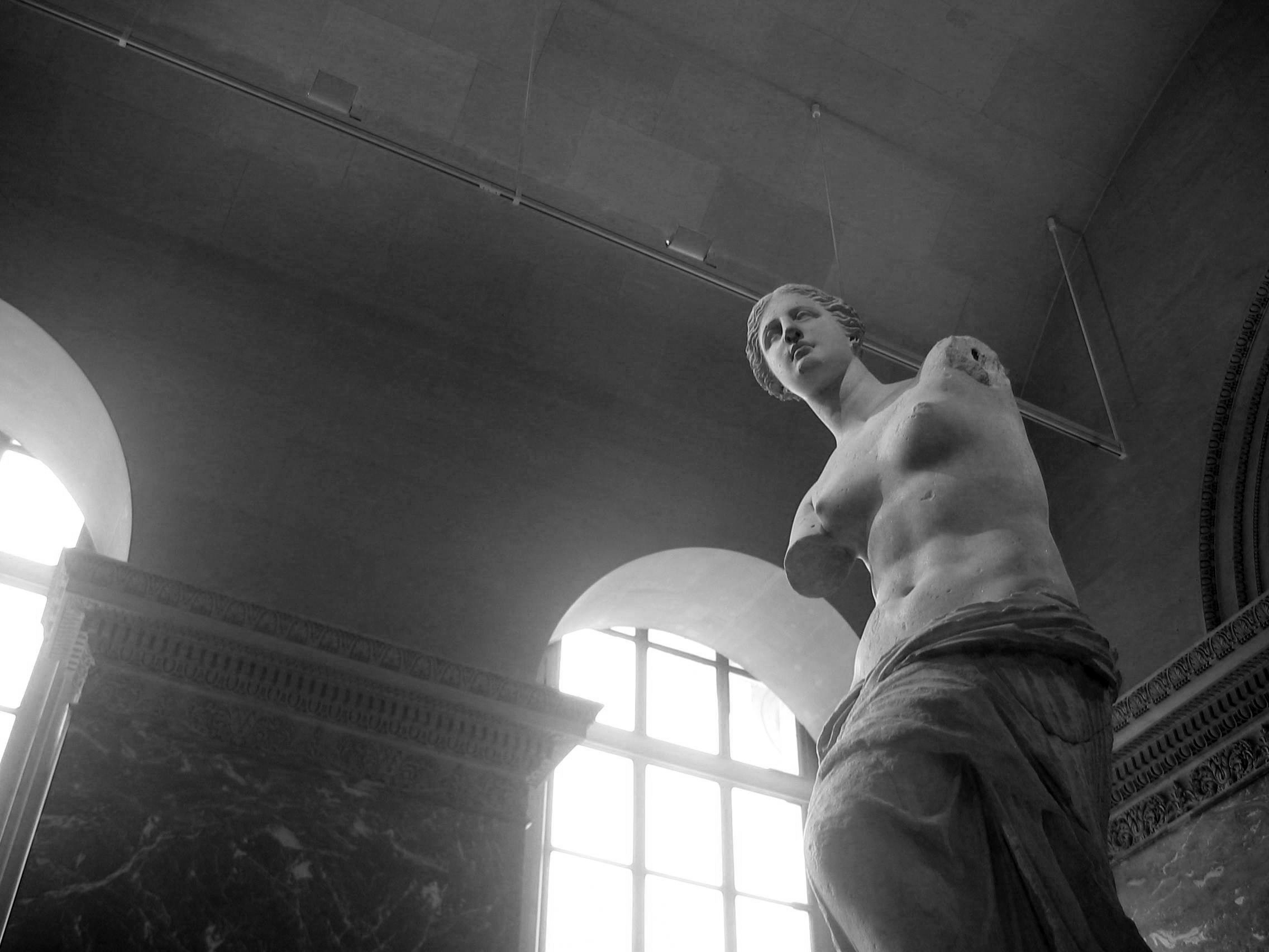 So-called “Venus de Milo” (Aphrodite from Melos), detail of the bust showing the difference of surface between the two arm sections: right one smooth; left one rough with a mortice. Parian marble, ca. 130-100 BC? Found in Melos in 1820.